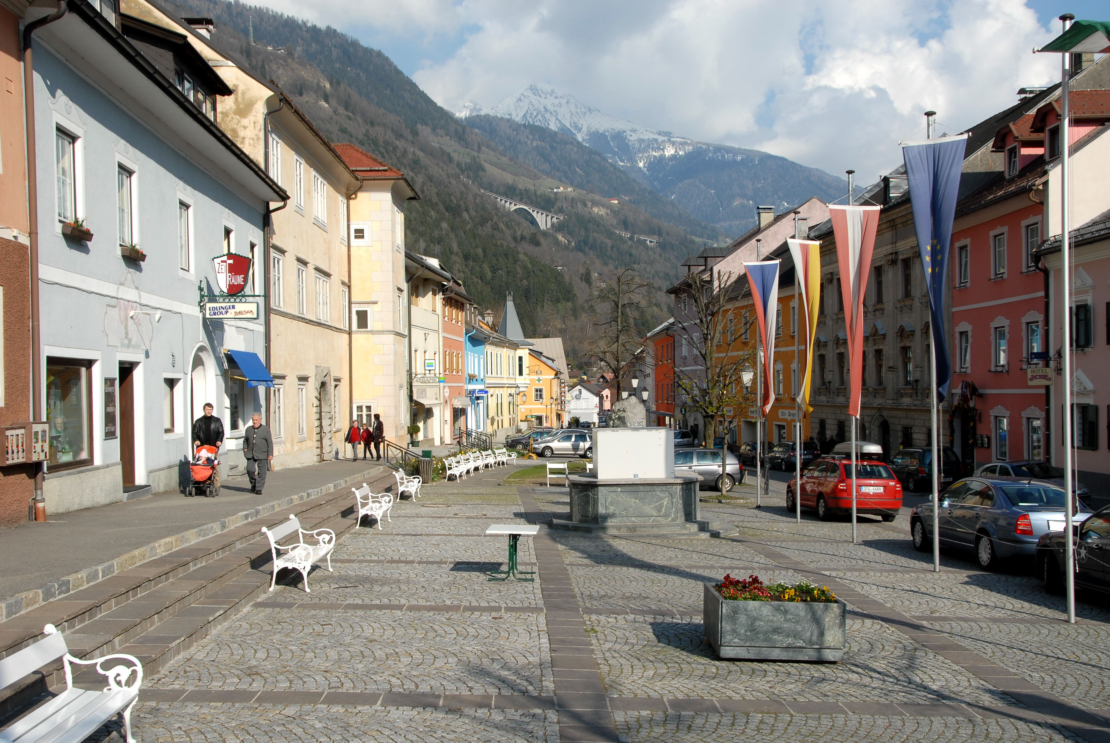 Main square at the community Obervellach in the district of Spittal by the Drau, Carinthia, Austria